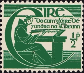 The 1944 tercentenary of the death of Mícheál Ó Cléirigh was marked by commemorative Irish postage stamps designed by Richard J. King showing Ó Cléirigh writing the word Annála 'Annals' (i.e. the Annals of the Four Masters, which he edited) under the Annals' famous motto Do ċum glóire Dé ⁊ onóra na hÉireann "for the glory of God and the honour of Ireland". The 1⁄2d and 1s denomination stamps became definitive issues until 1968.[1]